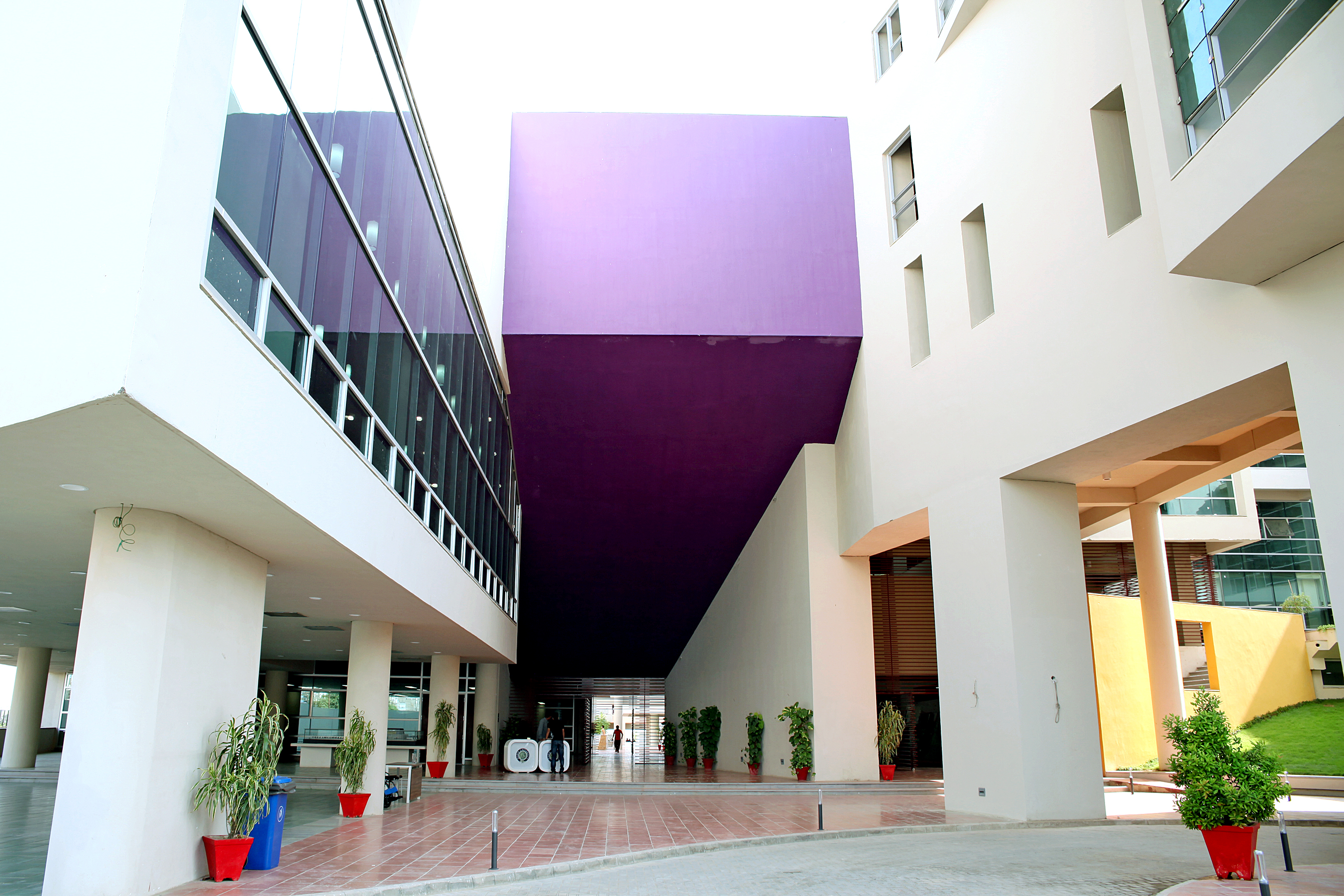 Educational Photo